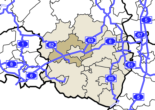 Motorways in the Kaiserslautern distric